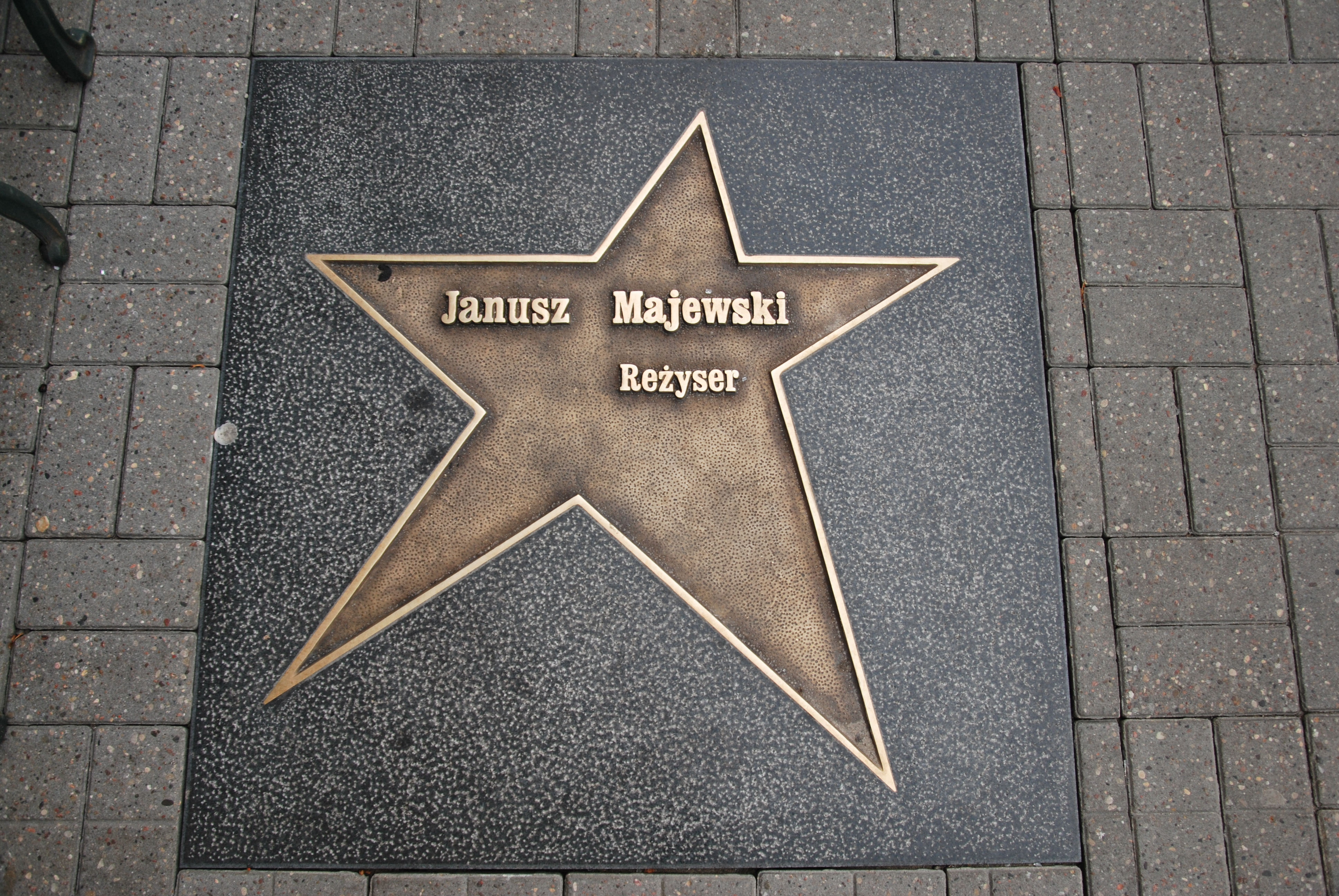 Star of Janusz Majewski, polish film director, on Łódź Walk of Fame